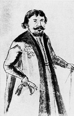 Andrei A. Vinius (1641—1717), Russian statesman, first Russian postmаster. Self portrait.